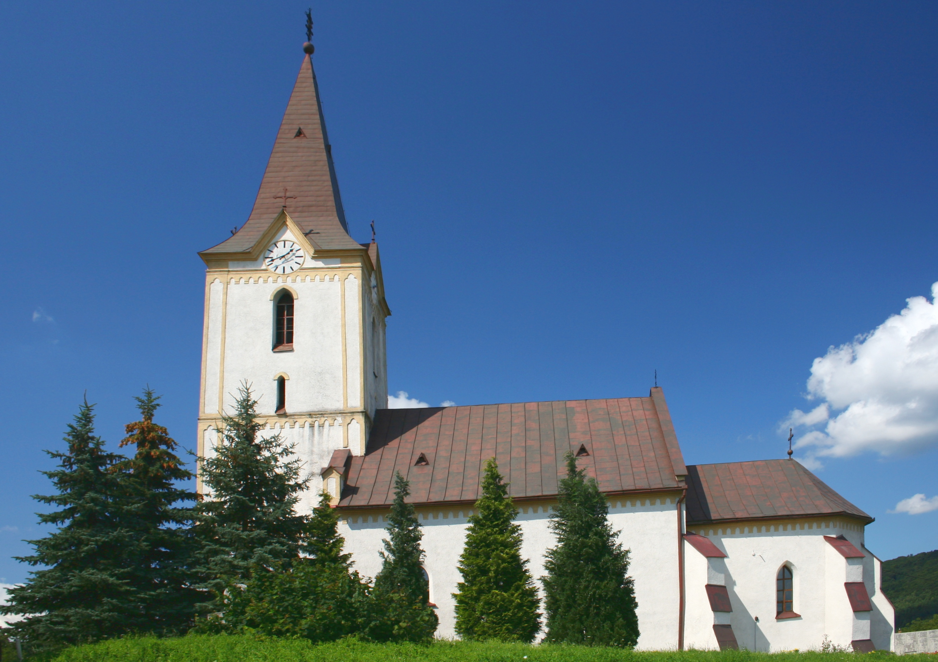 church in Bystre, Slovakia